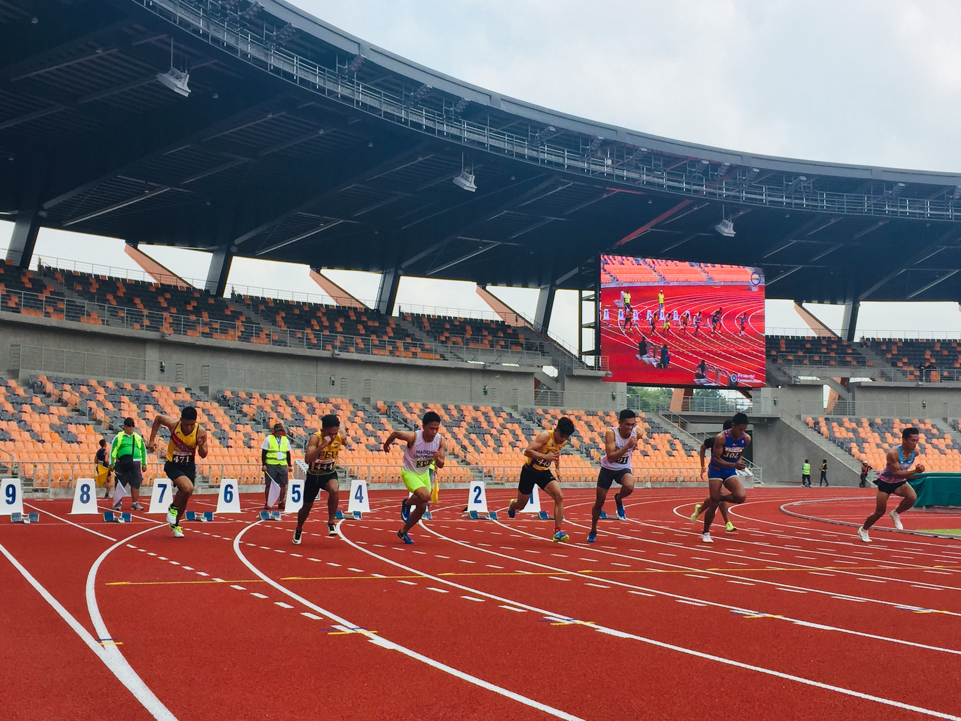 Final leg of the 2019 Weekly Relay Series organized by the Philippine Athletics Track and Field Association held at the 20,000-seater New Clark City Athletics Stadium. This is a pre-qualifying competition for the 2019 Southeast Asian Games. Competition winners will be part of the national team. (Gabriela Liana S. Barela/PIA 3)